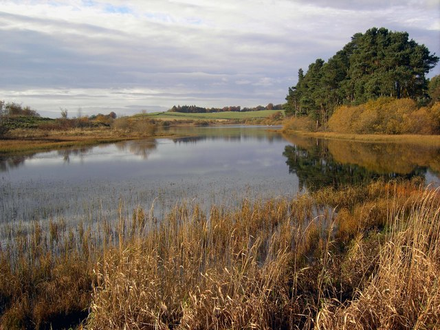 Lindean Reservoir Lindean Reservoir near Selkirk.